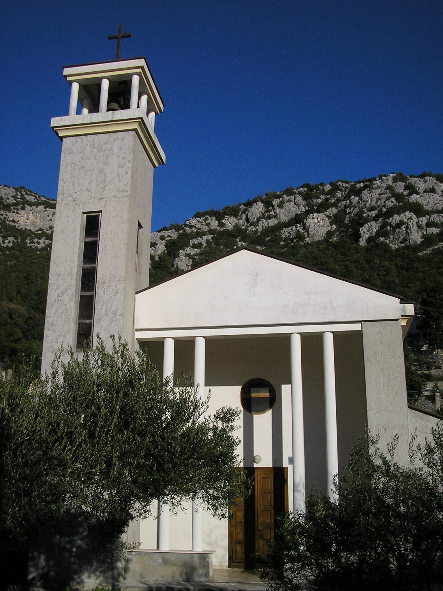 St. Peter and Paul church in Klek